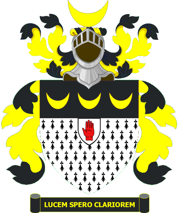 The armorial achievement of the Preston baronets of Beeston St Lawrence